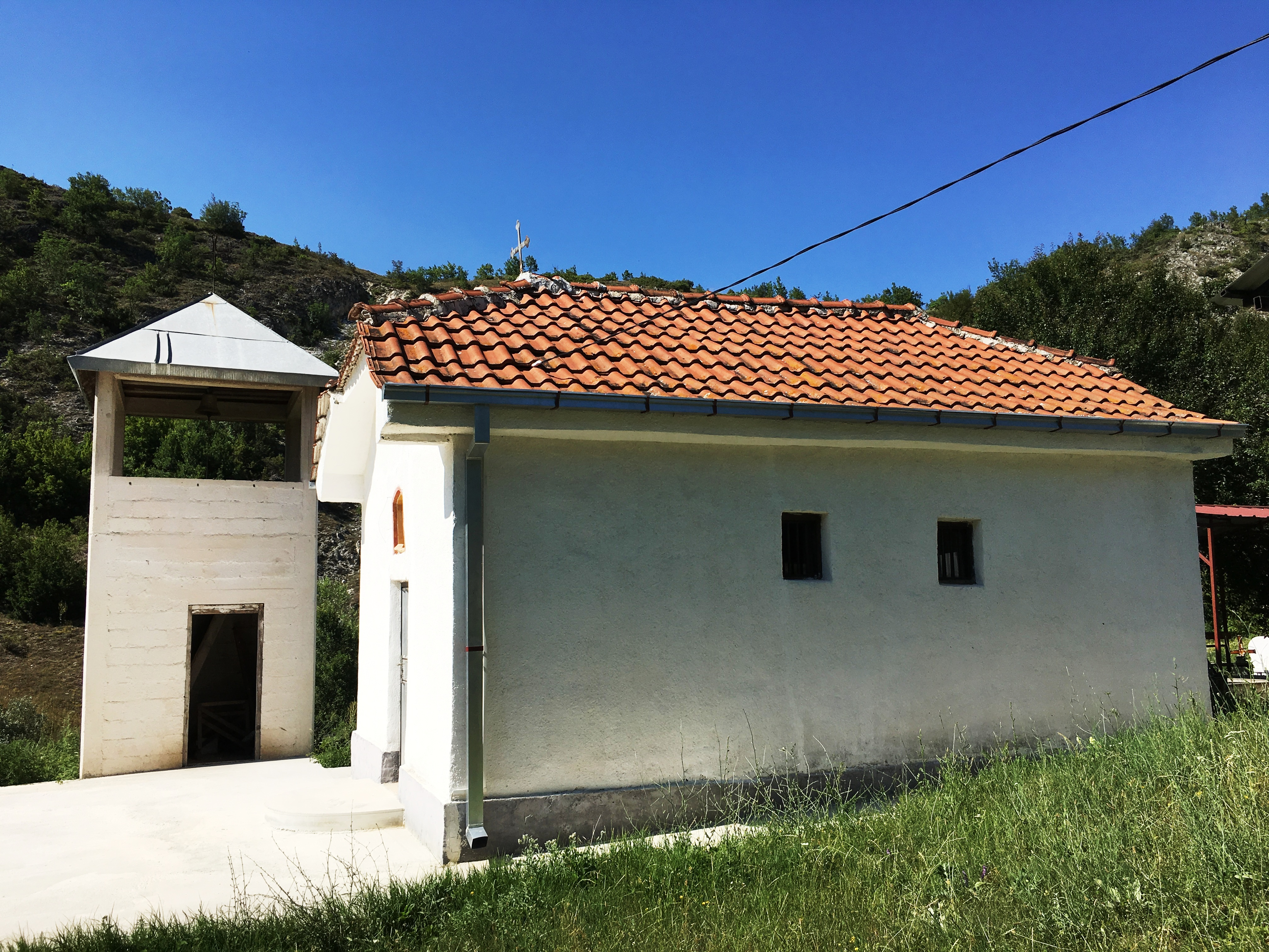 St. Nicholas Church in the village of Suvodol